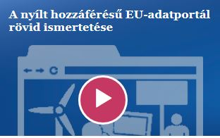 Screenshot from EUODP